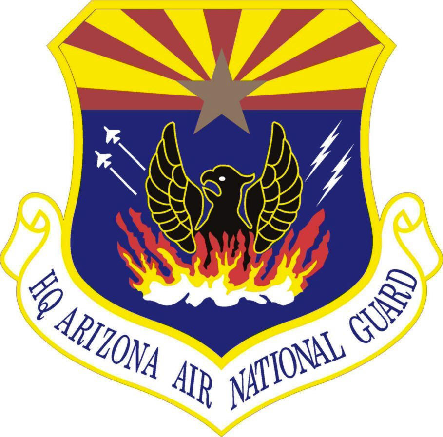 Emblem of the U.S. Arizona Air National Guard.